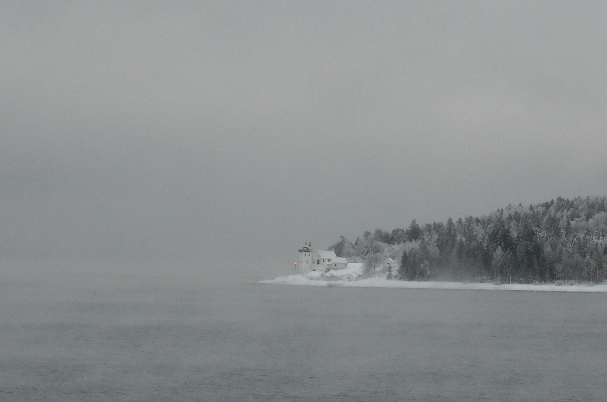 The lighthouse at Bastøya in Oslo fjord, Norway close to Horten